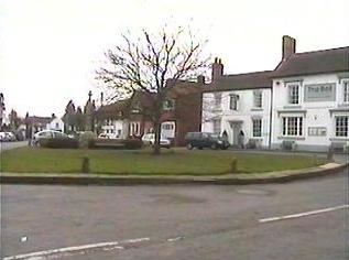 Kingsoak village green. Tanworth-in-Arden was the filming location for the fictional village of Kings Oak from the British television series Crossroads between 1970 and 1988.